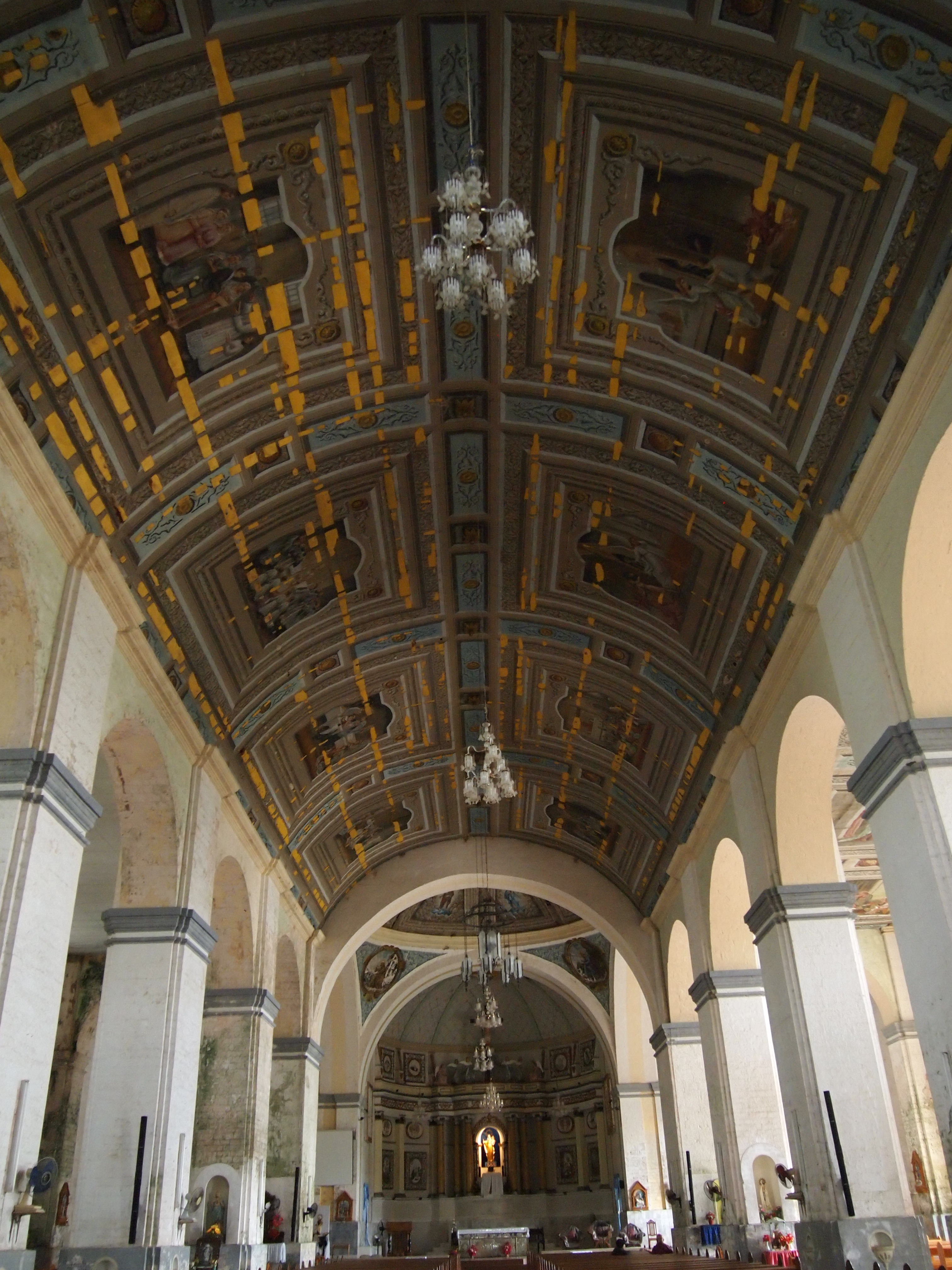 The painting on the ceiling was done by Cebuano painter Rey Francia. Francia was one of two painters commissioned by Cebu bishops to paint the churches in Bohol in the 1920s-1930s. His trademark style could be found in a number of the churches we visited.